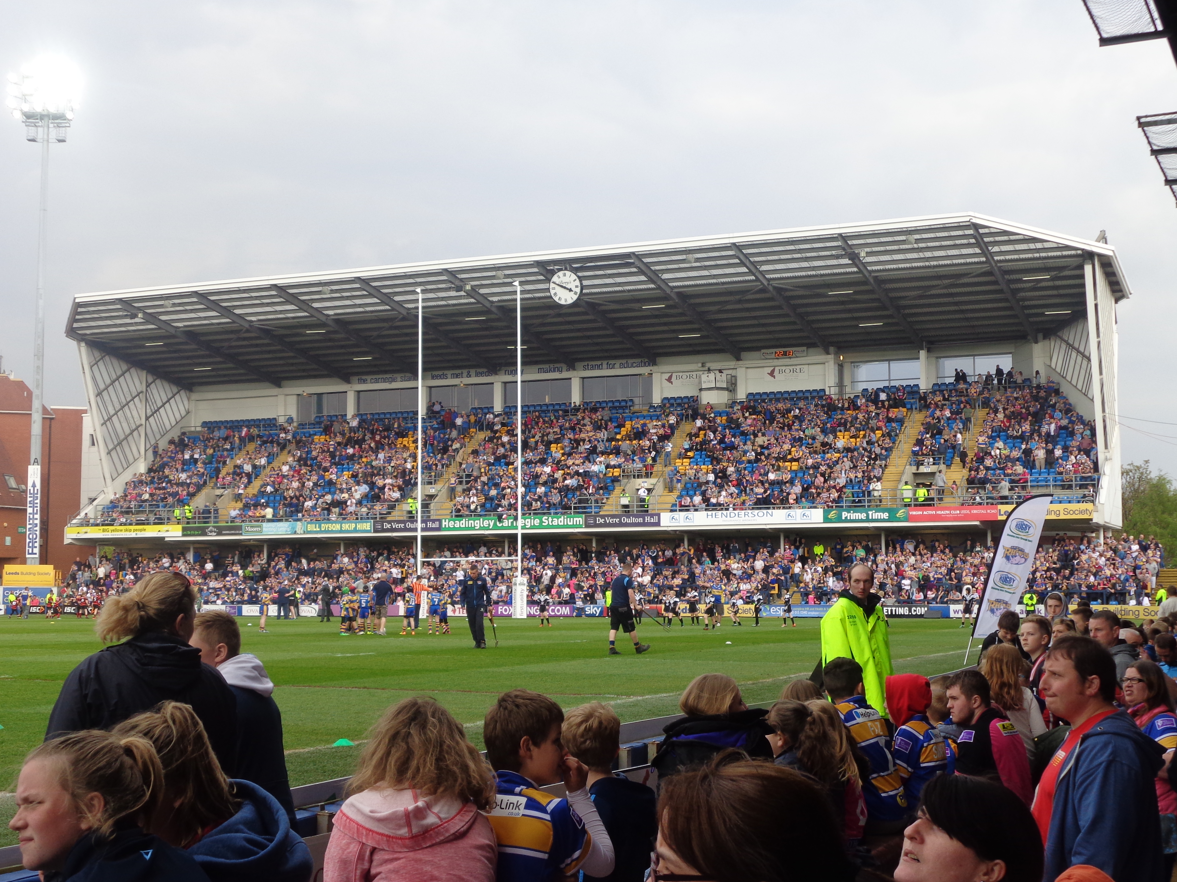 Leeds Rhinos vs. Salford Red Devils, Headingley Stadium, Leeds. Seen from the South Stand. Taken on the evening of Easter Monday the 21st of April 2014.